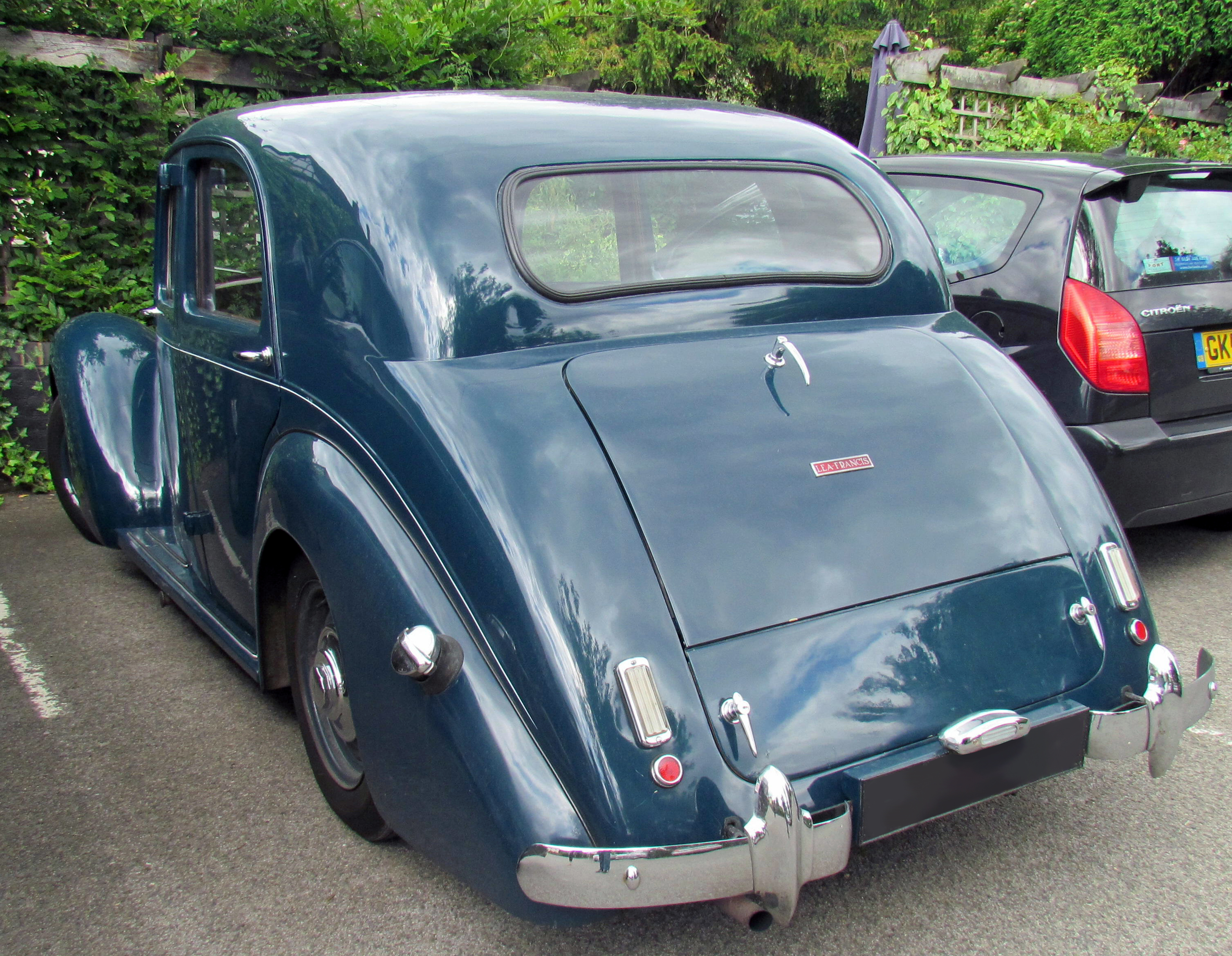 Rear of 1951-1953 Lea-Francis 14hp Four-Light Saloon. This low-slung version replaced earlier "Fourteens".